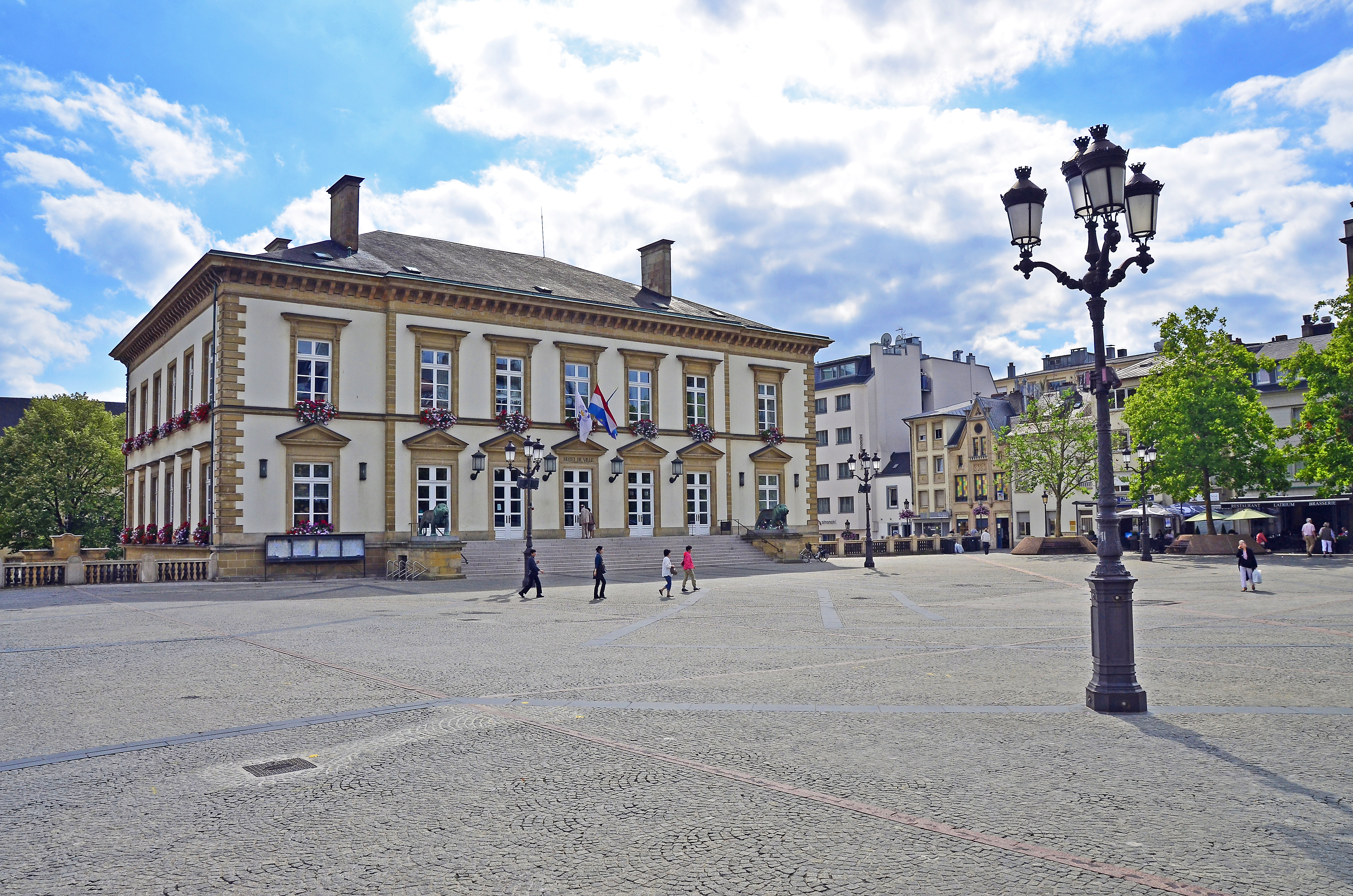 Town hall of Luxembourg City (LUX)